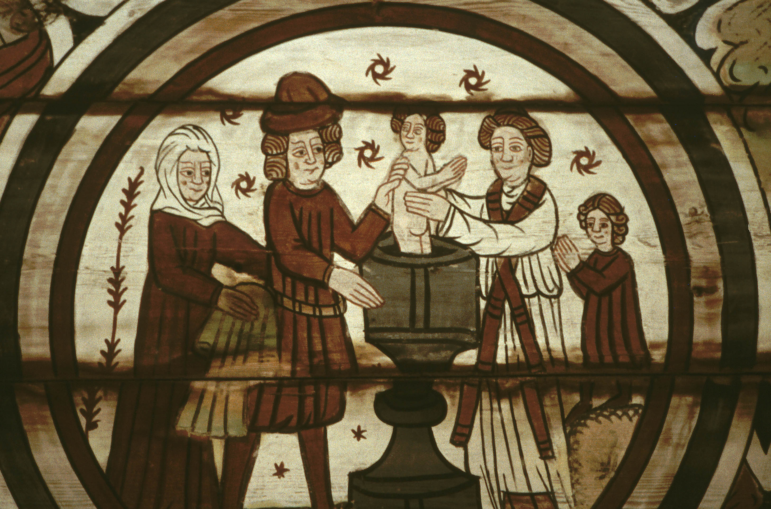 Painting from 1494 in the church of South Råda, Sweden, now destroyed by fire.